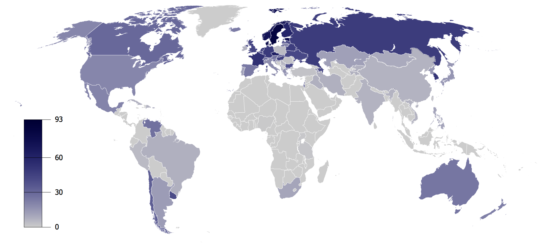 Atheist, agnostic, nonreligious, irreligious, religiousness populations by country or area for 2006 as percentage of total population.